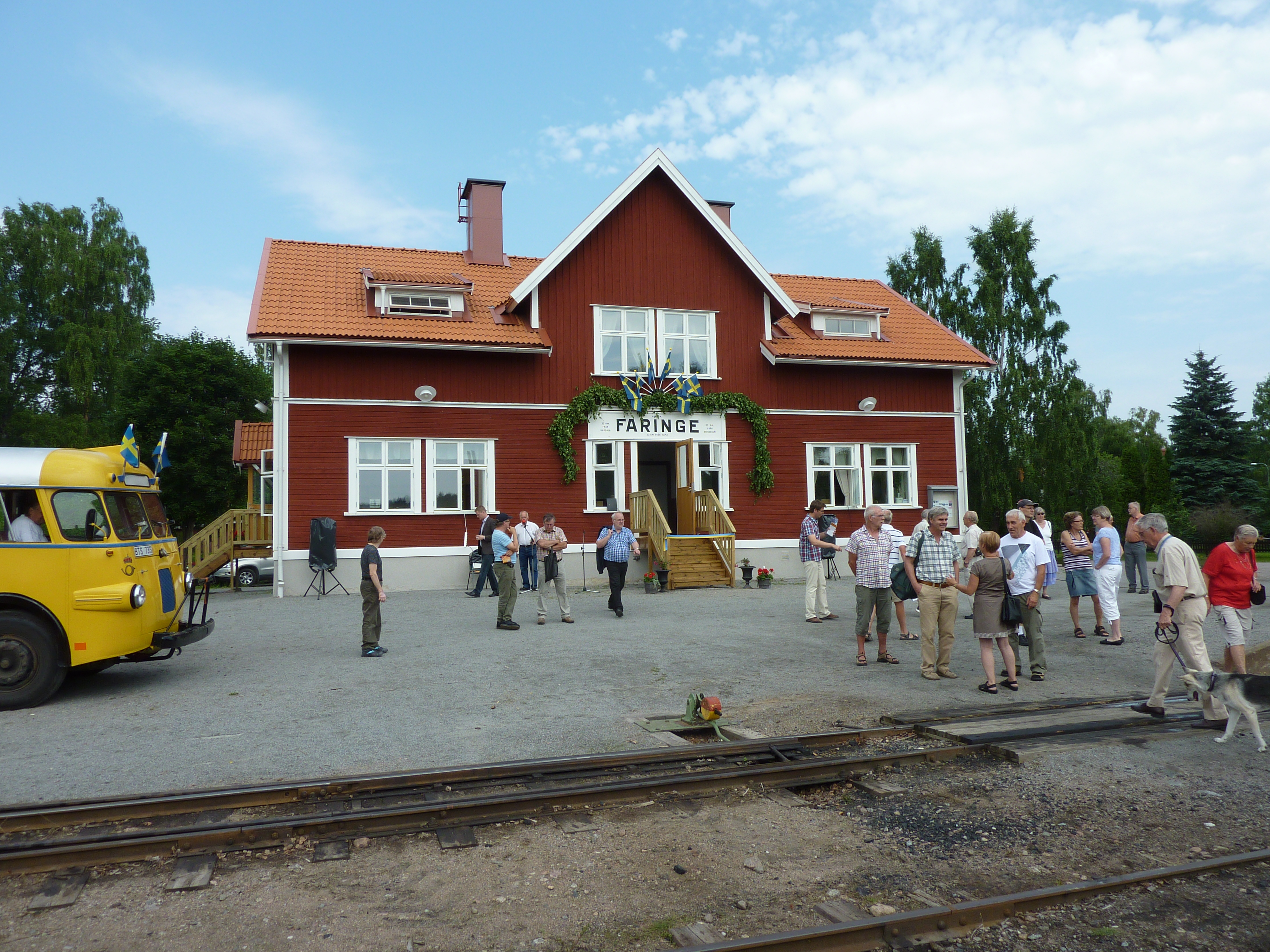 Railway station Faringe, Official opening July 2, 2011